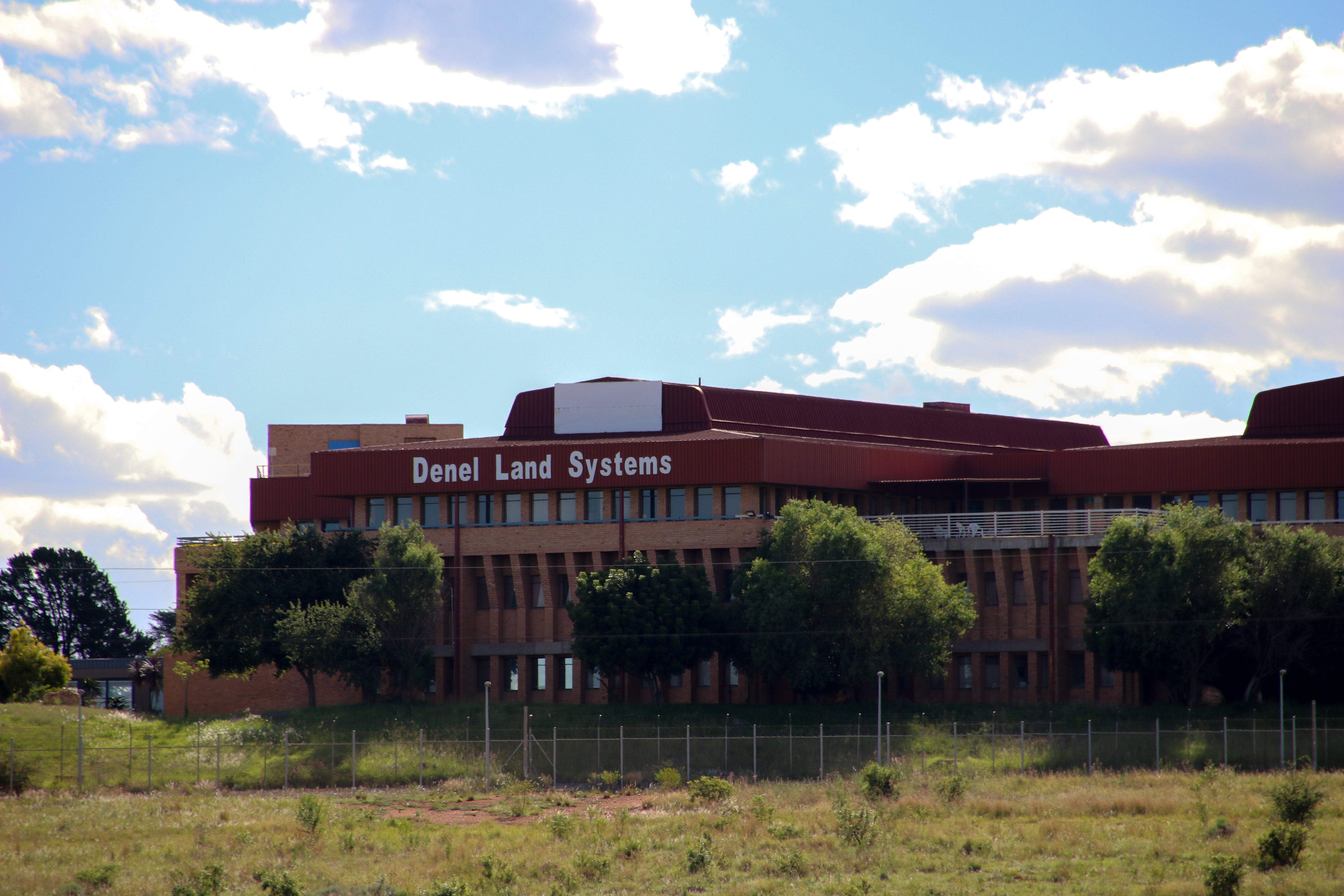 Denel Land Systems, a devision of the Denel group in Centurion, South Africa, photographed from Groenkloof Nature Reserve near Pretoria.